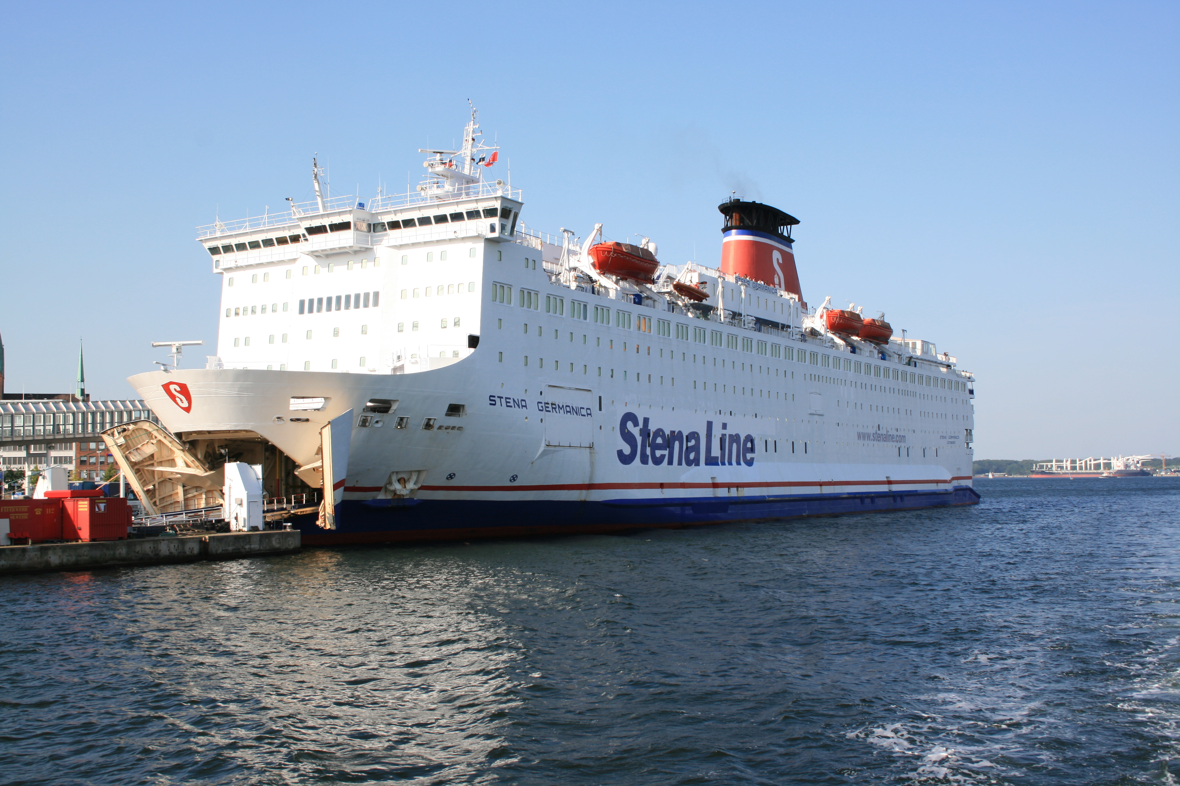 Stena Germanica in Kiel